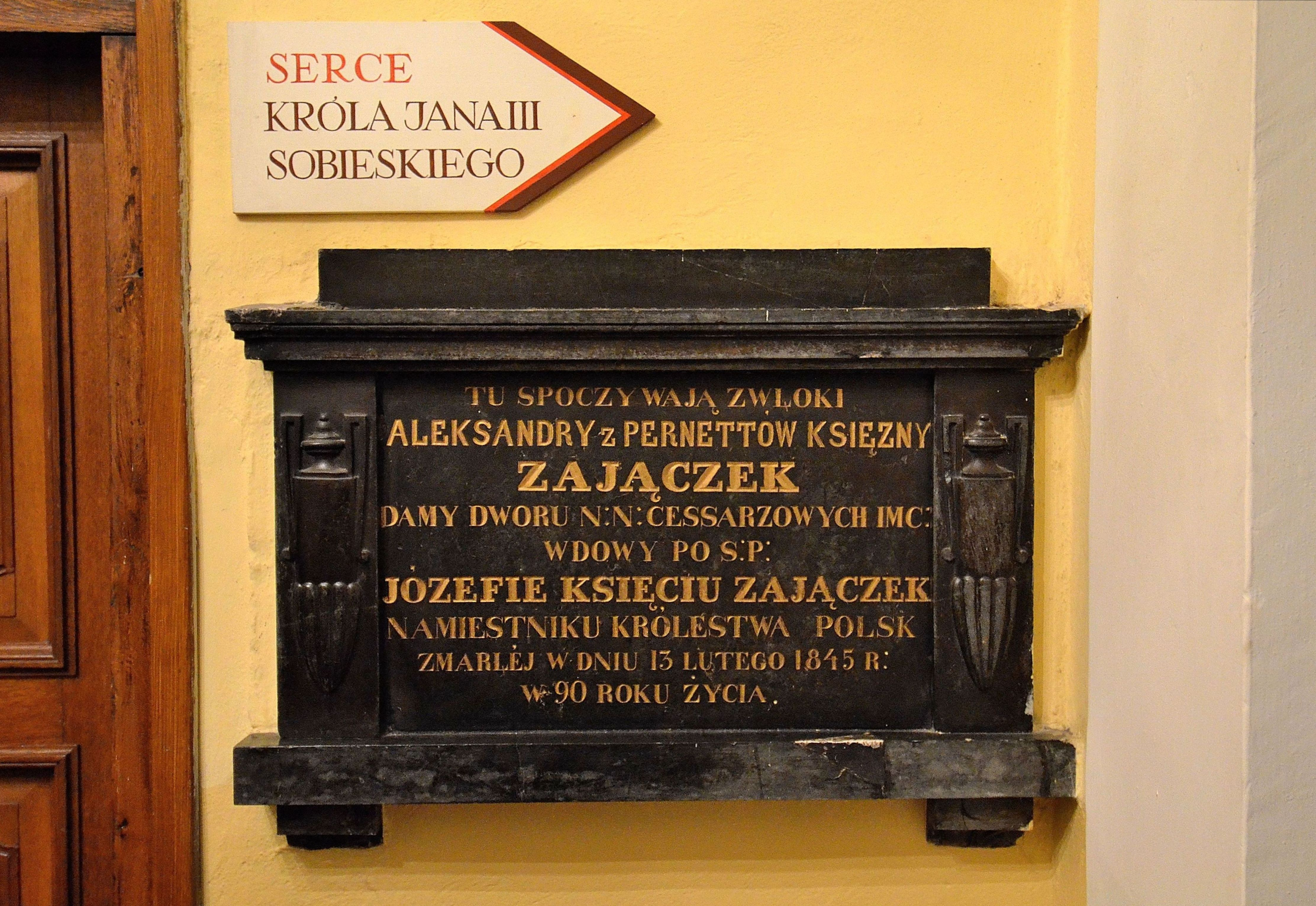 Epitaph plate of Aleksandra Zajączkowa in the Capuchin Church of the Trasfiguration in Warsaw